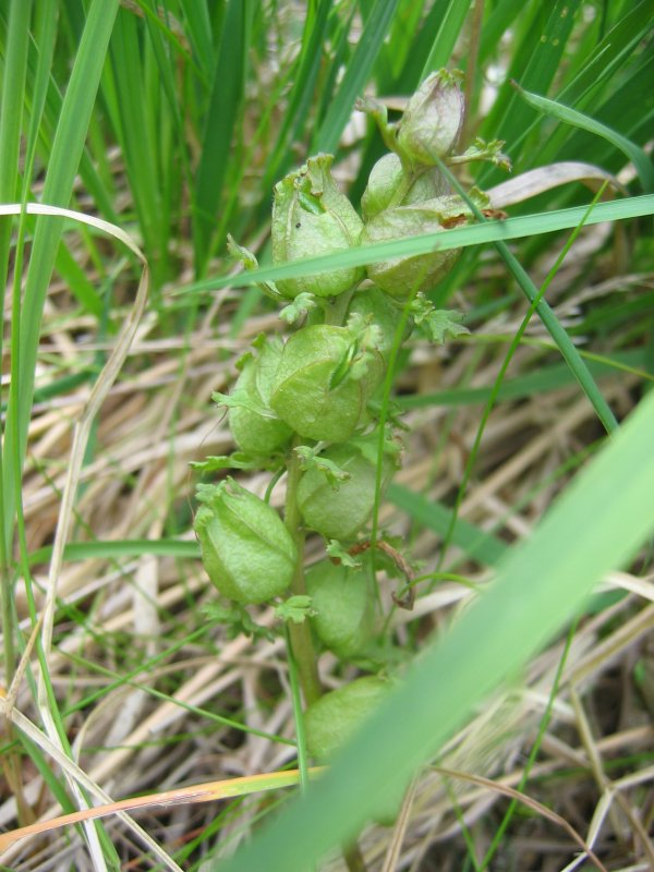 Wald-Läusekraut Pedicularis sylvatica, Zingst